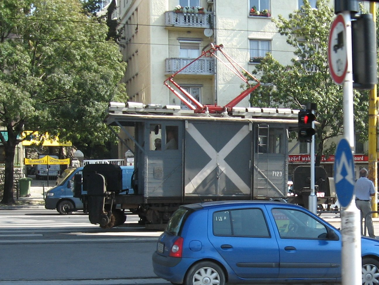 „Snow-sweep“ tram in Budapest.